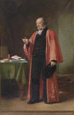 Sir Robert Inglis, 2nd Baronet (1886-1855)